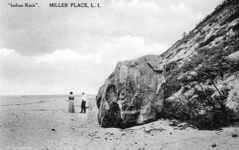 Indian Rock on Miller Place Beach in a turn of the 20th century postcard